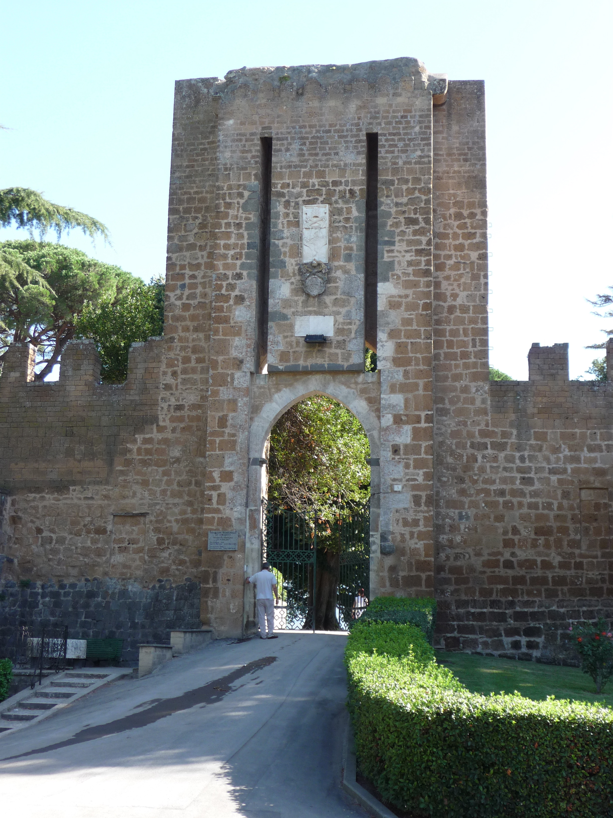 Orvieto, Italy.